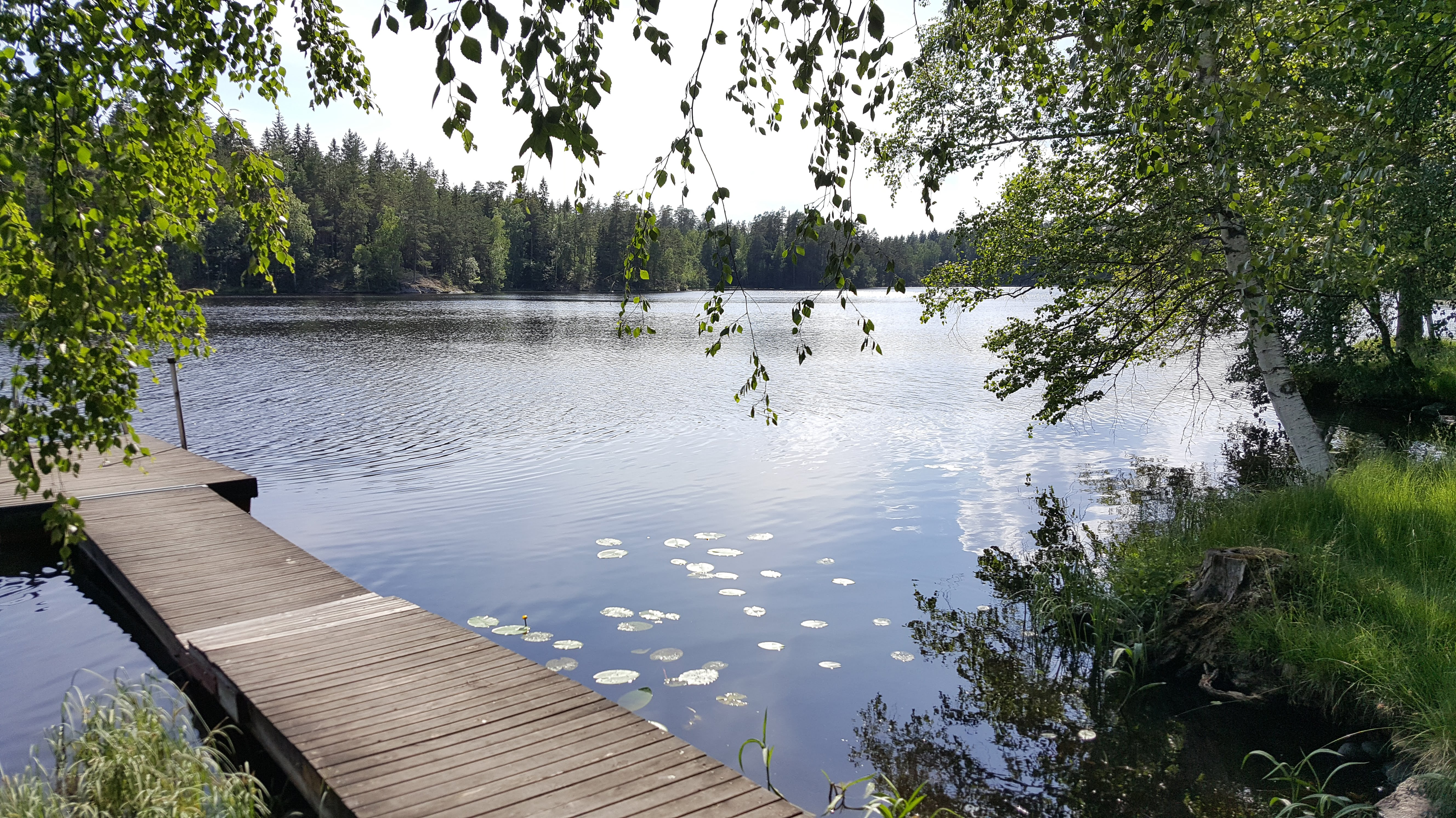 Lake Långsjön in Lilla Malma parish, Södermanland province, Sweden, on 9 June 2018